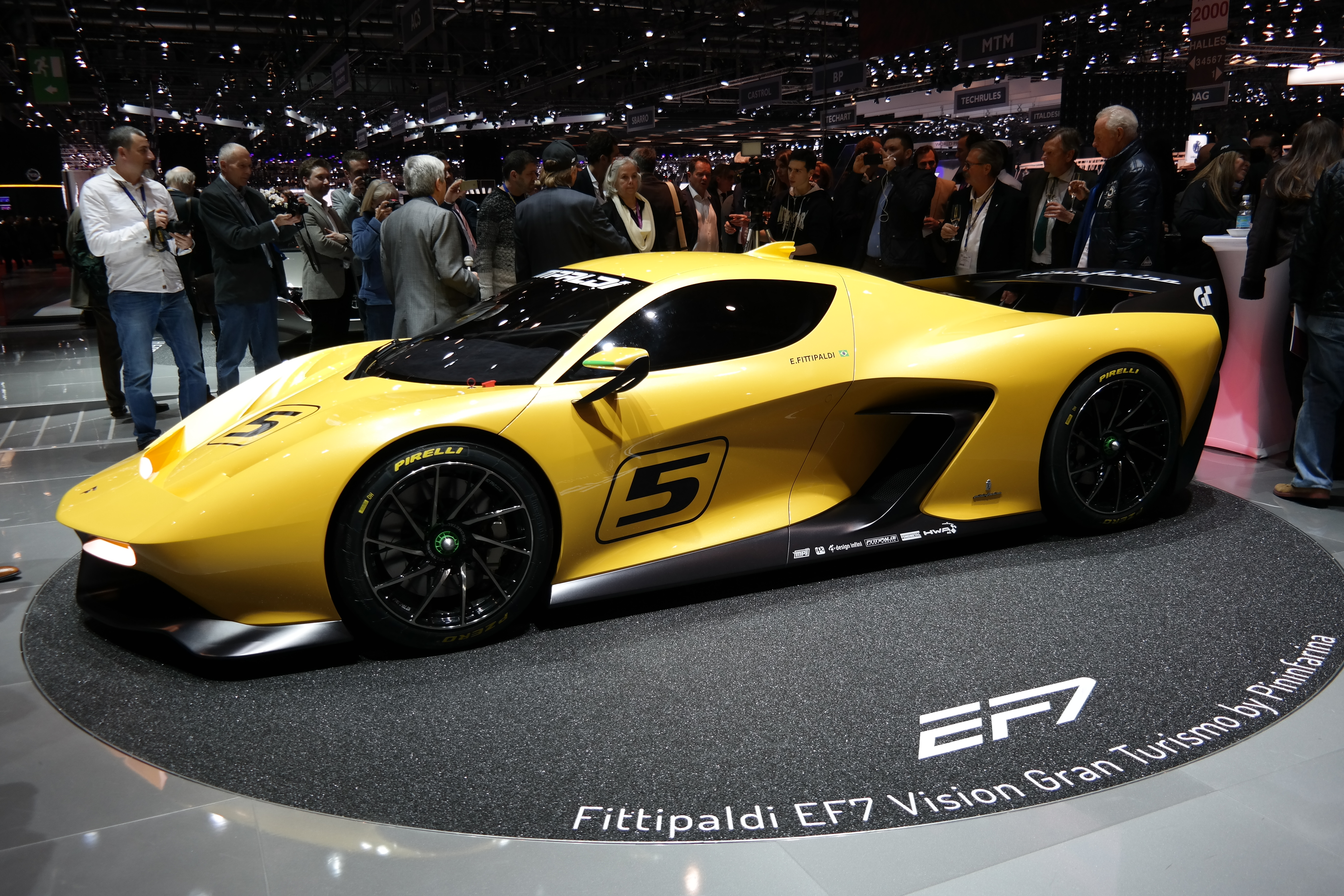 Geneva Motor Show 2017 (photo taken on the first press day)